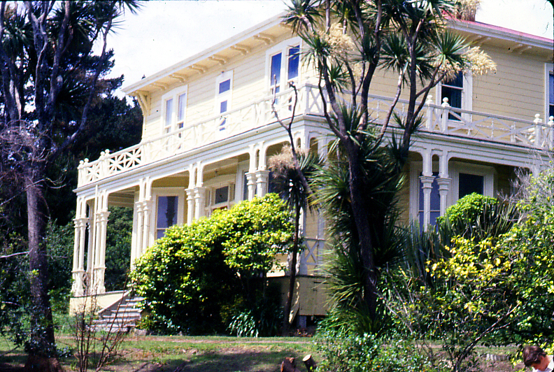 This was the location for Peter Jackson's first film 'Bad Taste'. It was a private house originally, but is now a facility for wedding receptions and the like. New Zealand Historic Places Trust Register number: 1328.